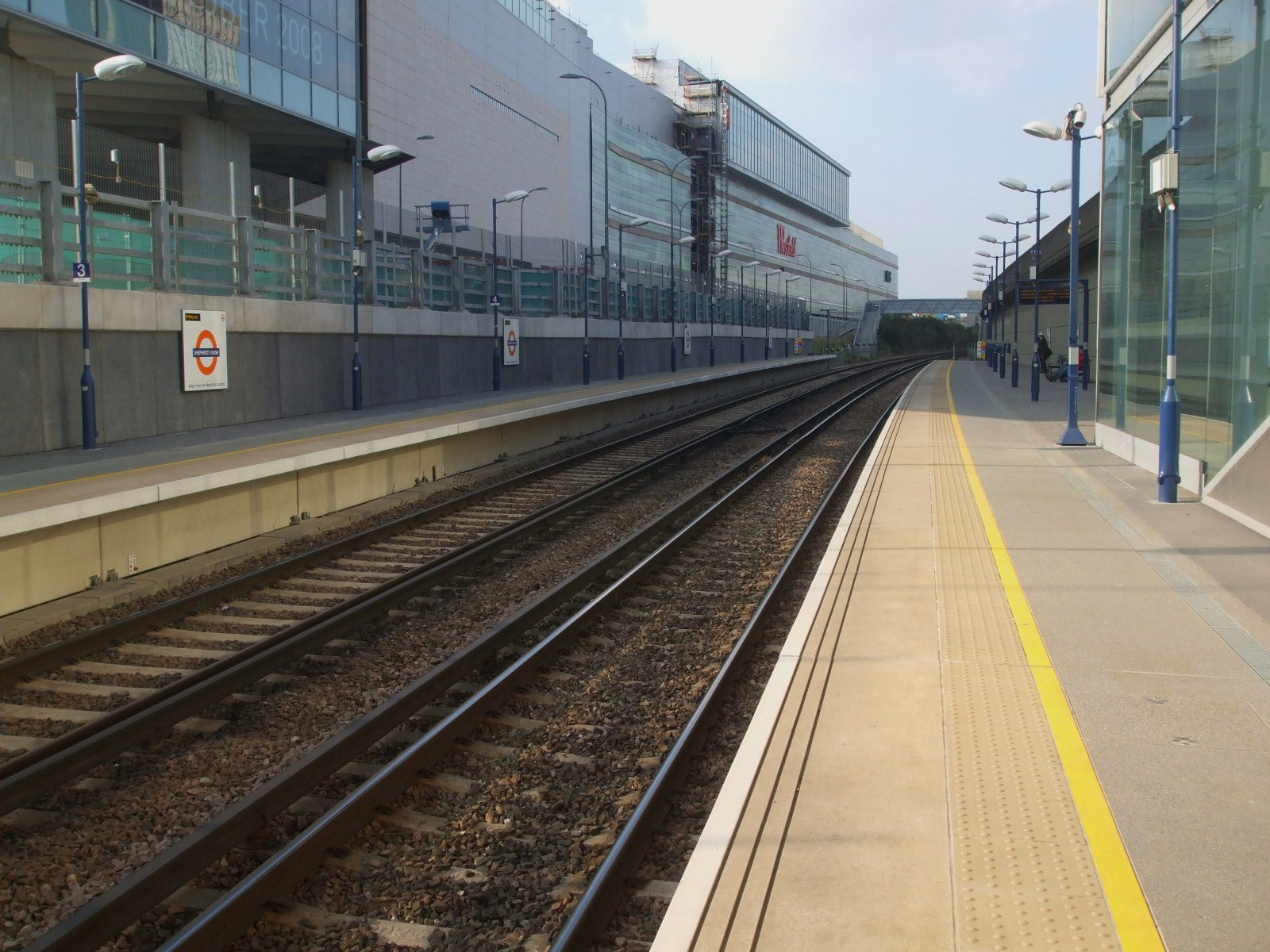 Shepherd's Bush Overground station looking north on day of opening